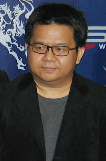 Director-producer Prachya Pinkeaw at the world premiere of King Naresuan (part I) at CentralWorld in Bangkok.